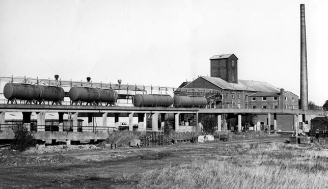 The old sugar mill in Teckomatorp, procured in 1967 by BT Kemi and scene for the chemical accident known as "BT Kemi-skandalen".